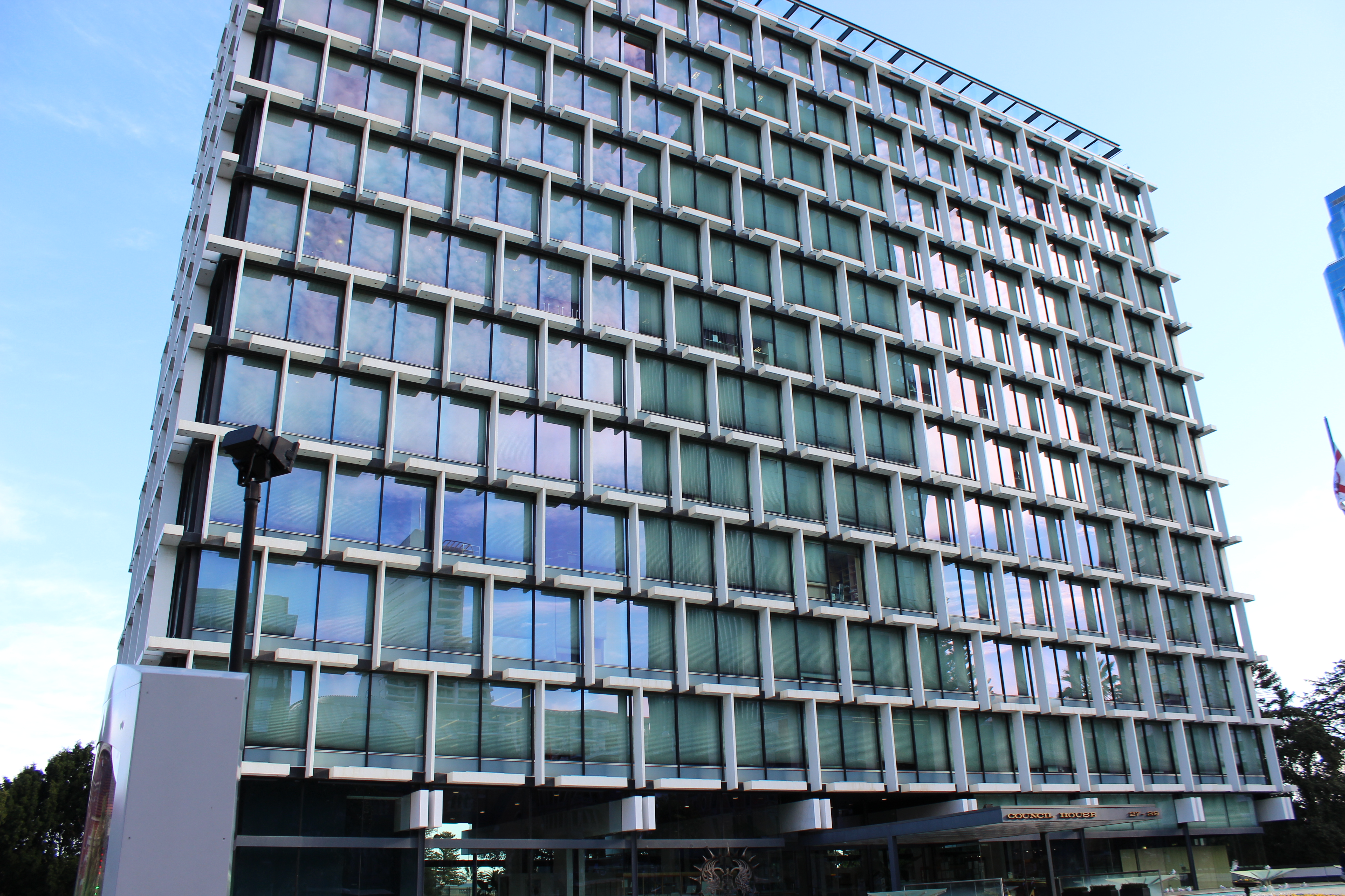 Perth Council House, one of the few 1960's buildings left and preserved.